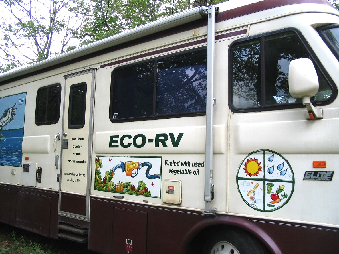 Biodiesel-fueled (used vegetable oil) RV at ACNW